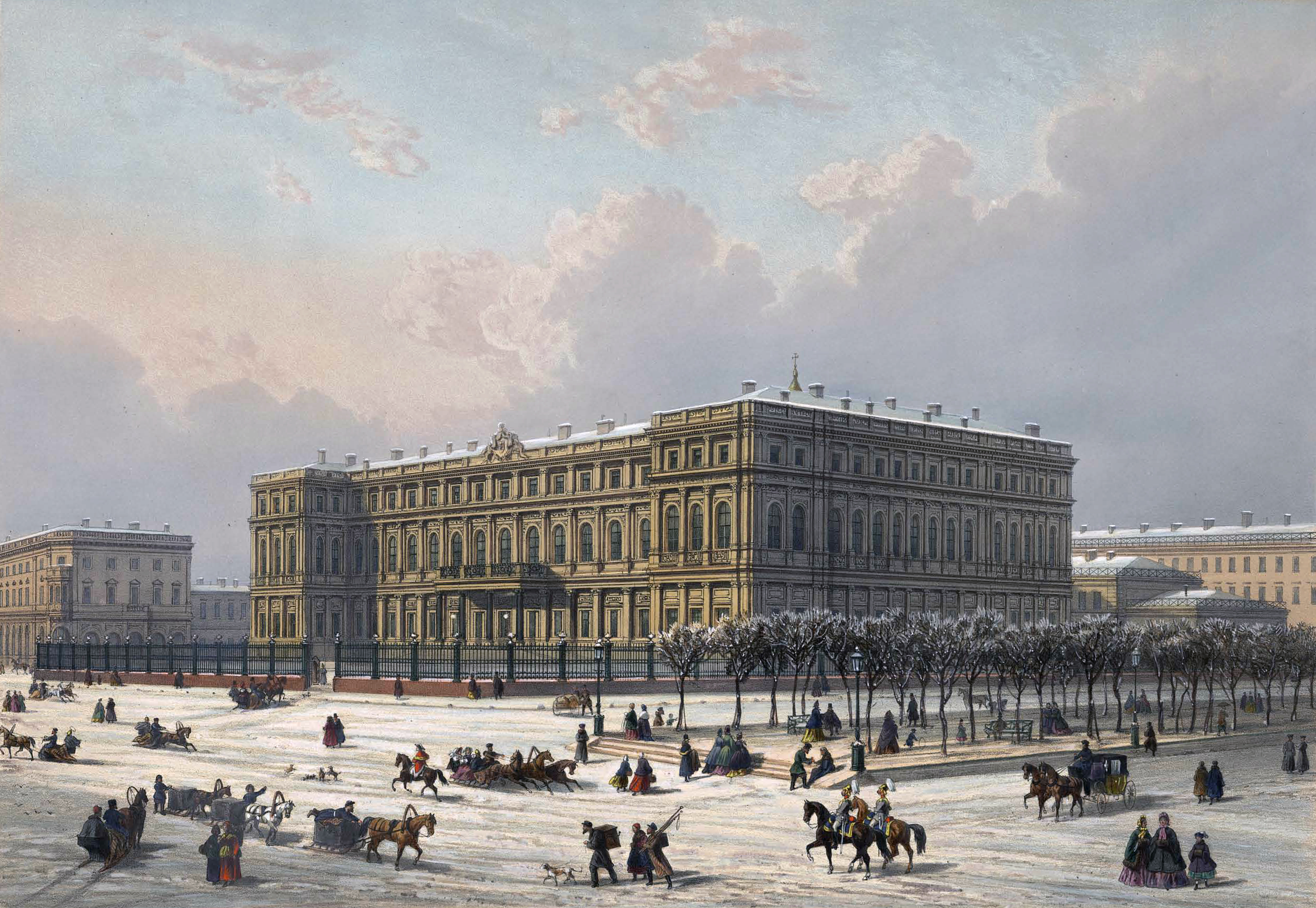 Nicholas Palace in St. Petersburg in the 19th century, lithograph after a drawing by Charlemagne